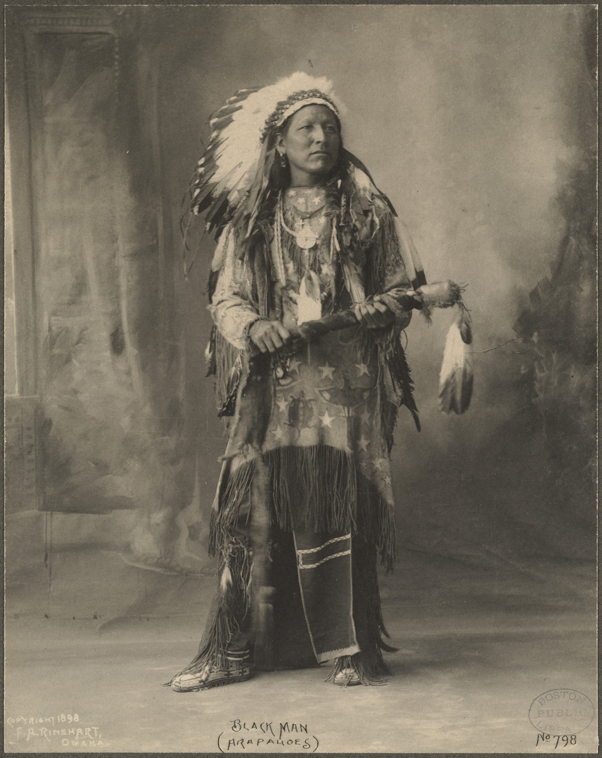 Black Man, (Arapahoes)